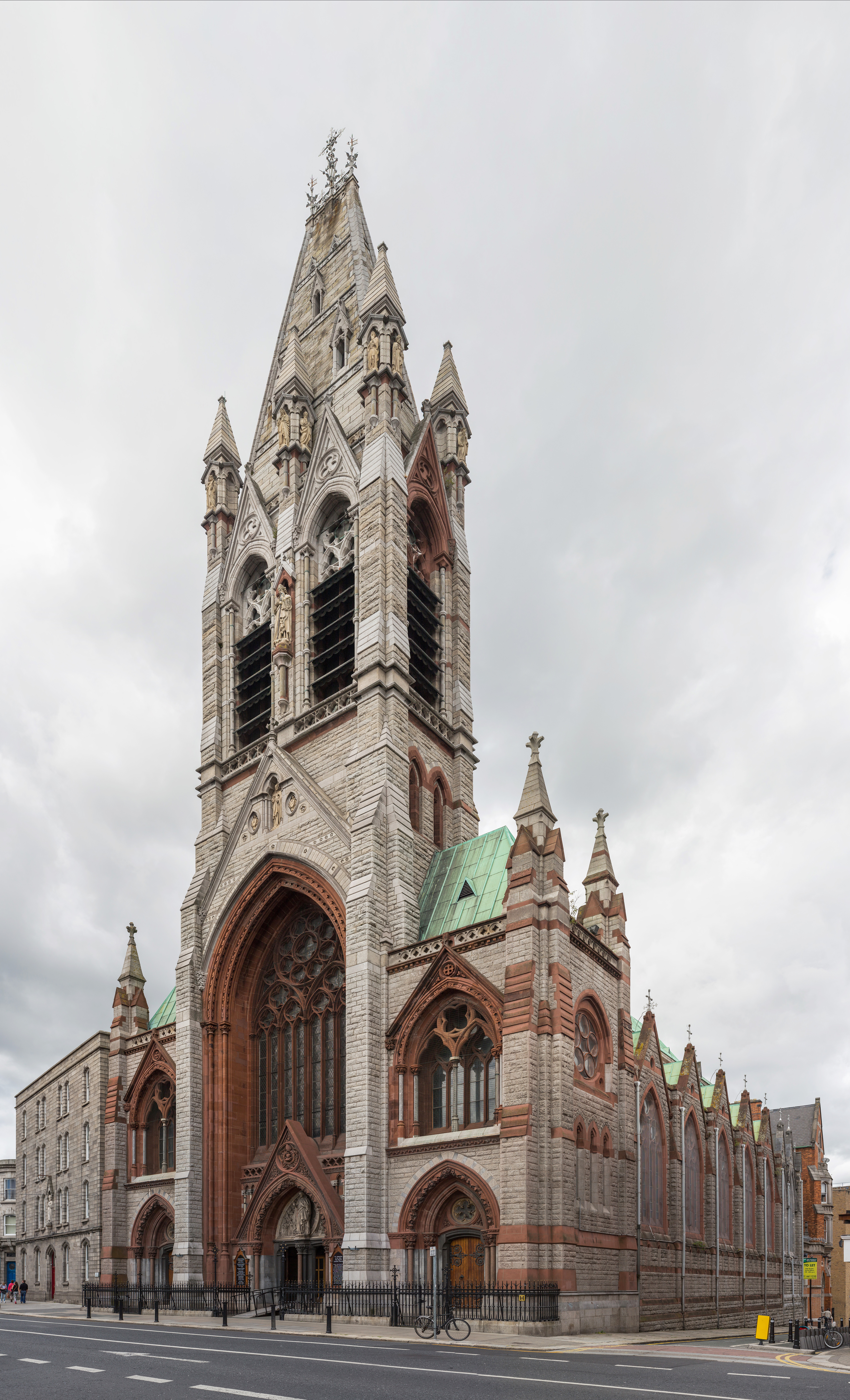 The exterior of John's Lane Church in Dublin, Ireland.